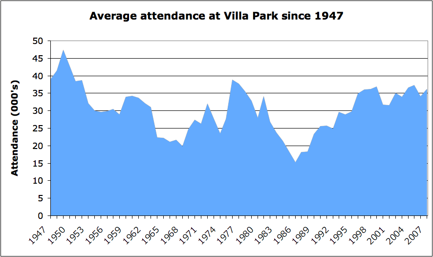 Graph of attendance at Villa Park since 1947.